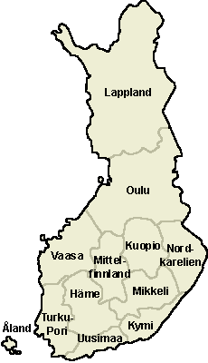 Provinces (lääni) of Finland as of 1997. German text.